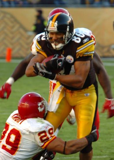 Hines Ward of the Pittsbrgh Steelers attempts to break an opponenent's tackle during an NFL game in 2006.